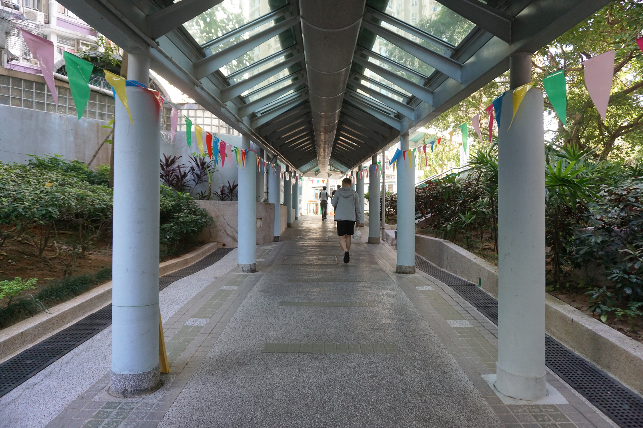 Tsz On Court in Tsz Wan Shan, Hong Kong.